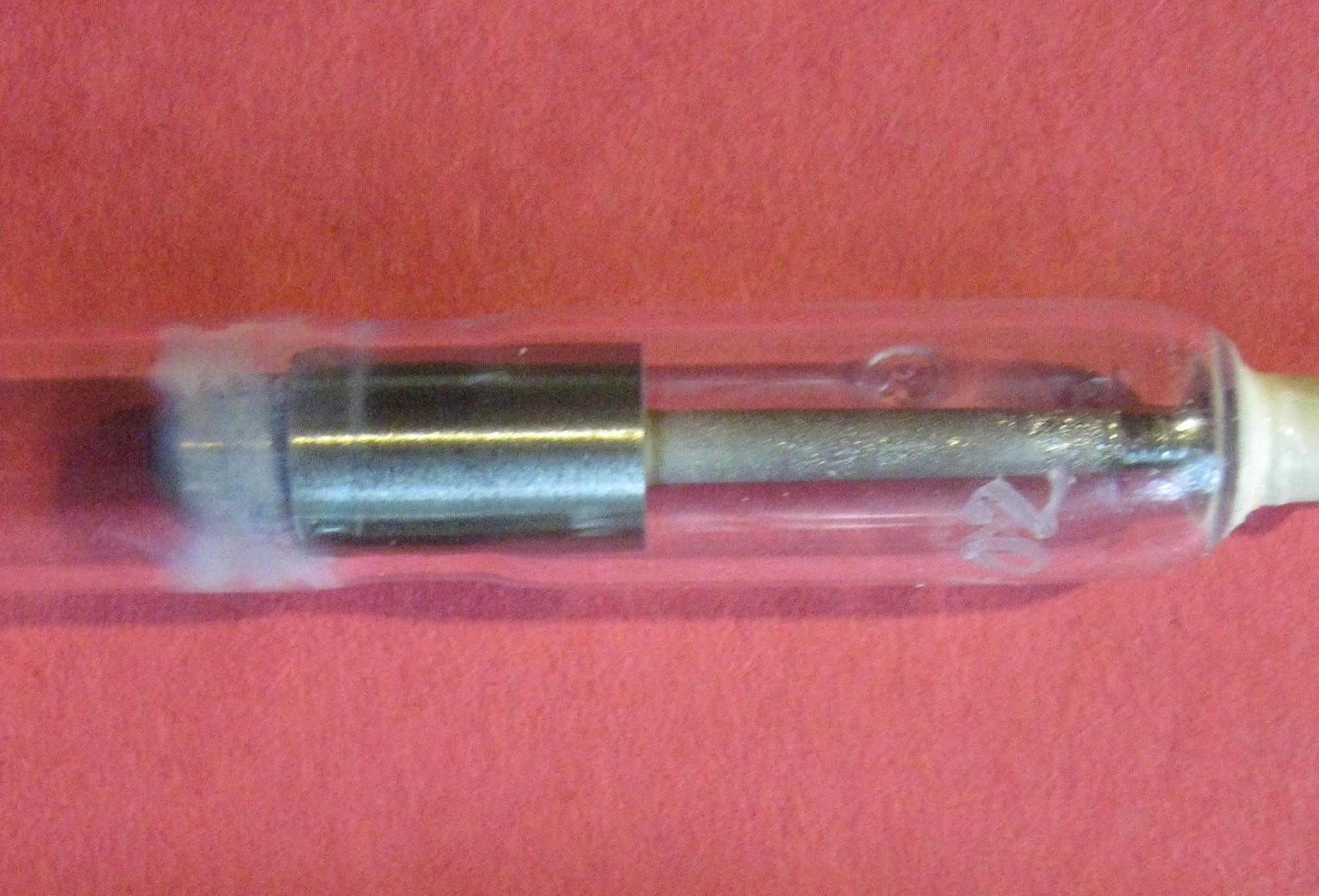 Ablation from the high energy electrical arc in a xenon flashtube. The electrical arc slowly erodes the inner wall of the tube, making the quartz glass tube appear translucent and frosted near the cathode.